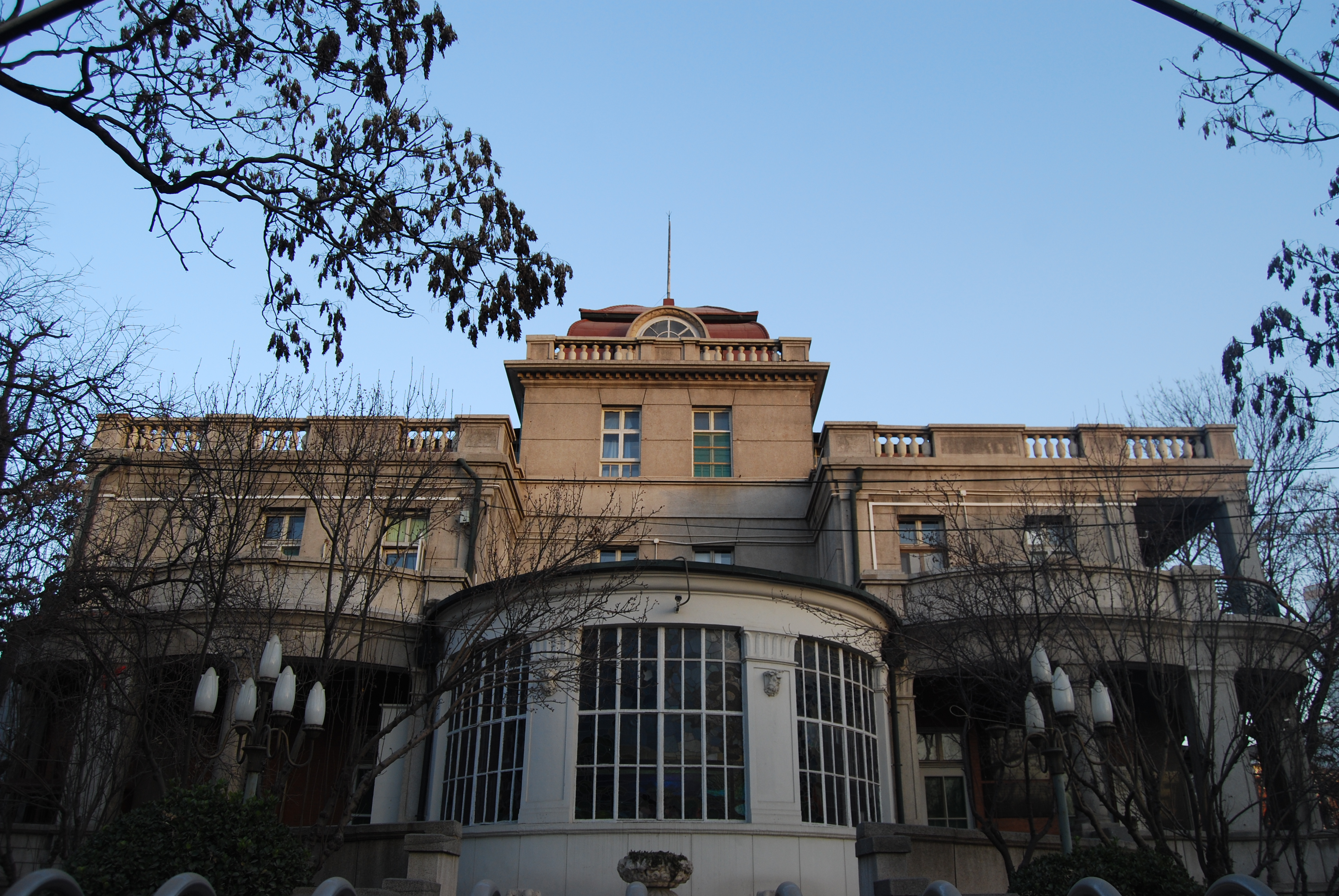 The Former Residence of Zhang RuiTing in Huayuan Lu No. 9, Heping District, Tianjin